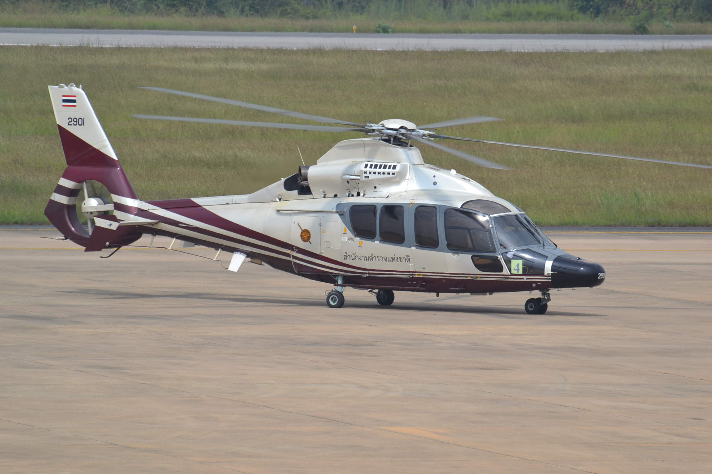 Eurocopter EC155 of the Royal Thai Police at Khon Kaen-KKC, Thailand,26/10/13.